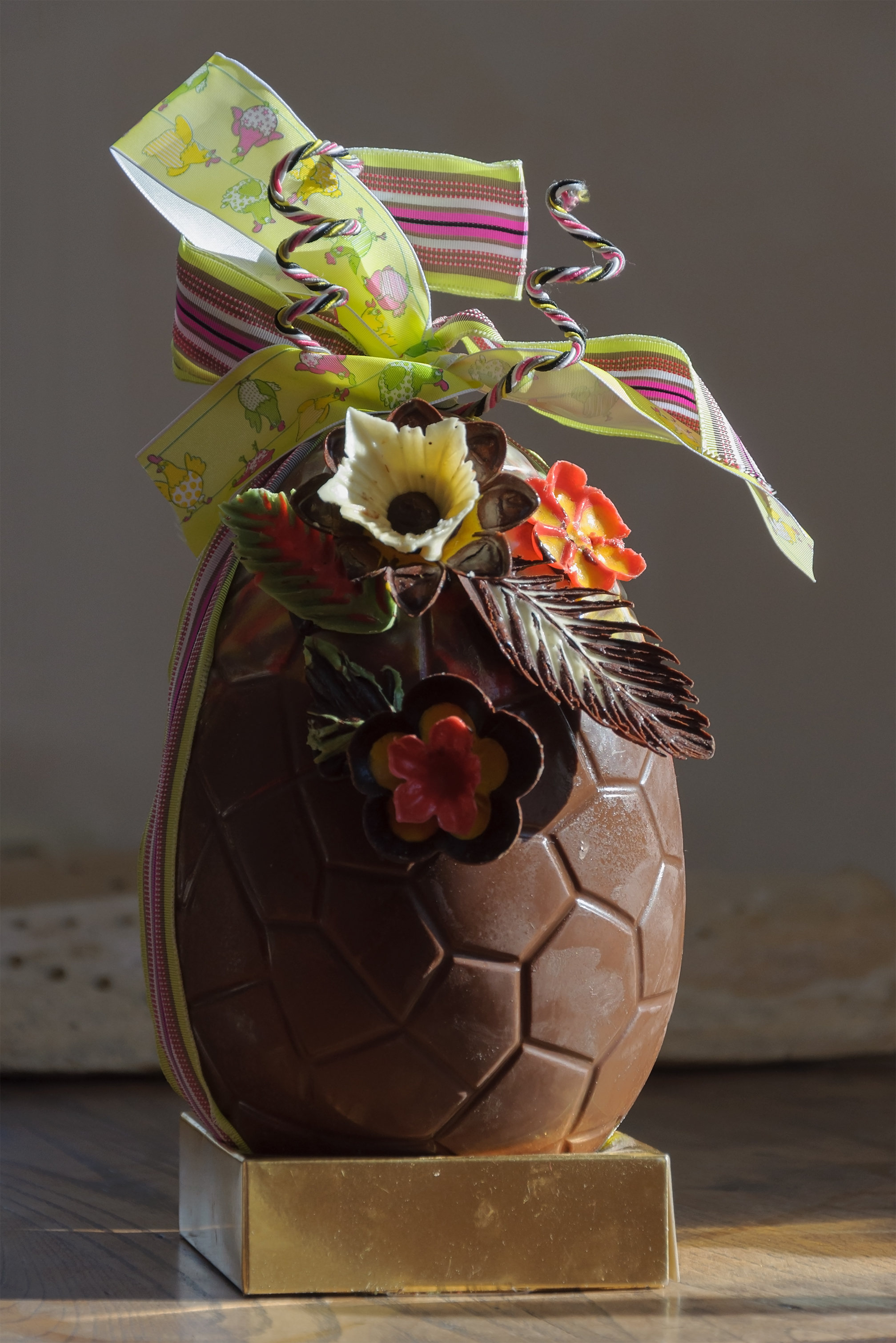 Chocolate Easter egg